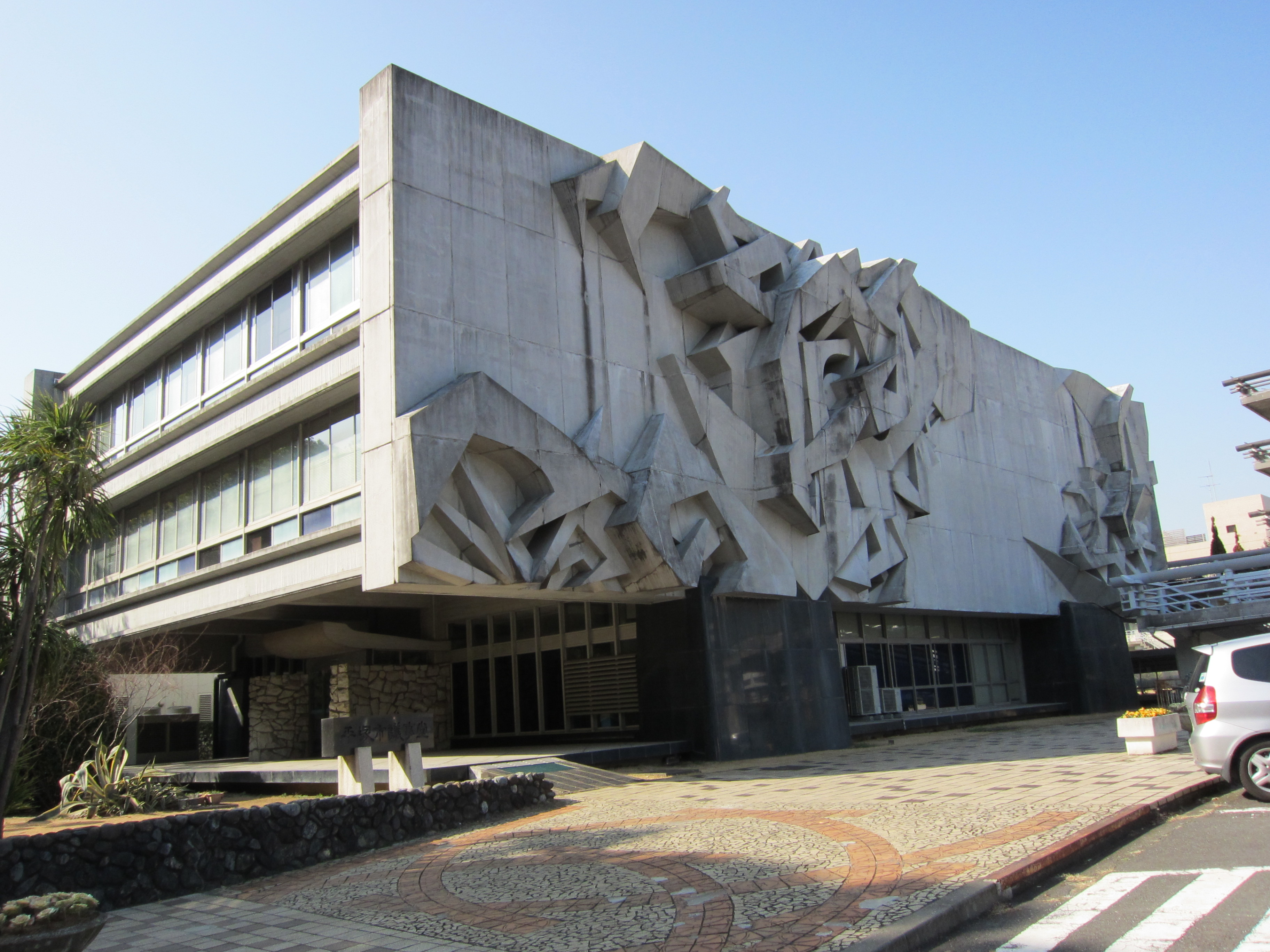 Hiratsuka City Council